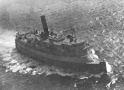 The former Baltimore Steam Packet Company's President Warfield in February 1947, enroute to Europe where she would be renamed the Exodus.